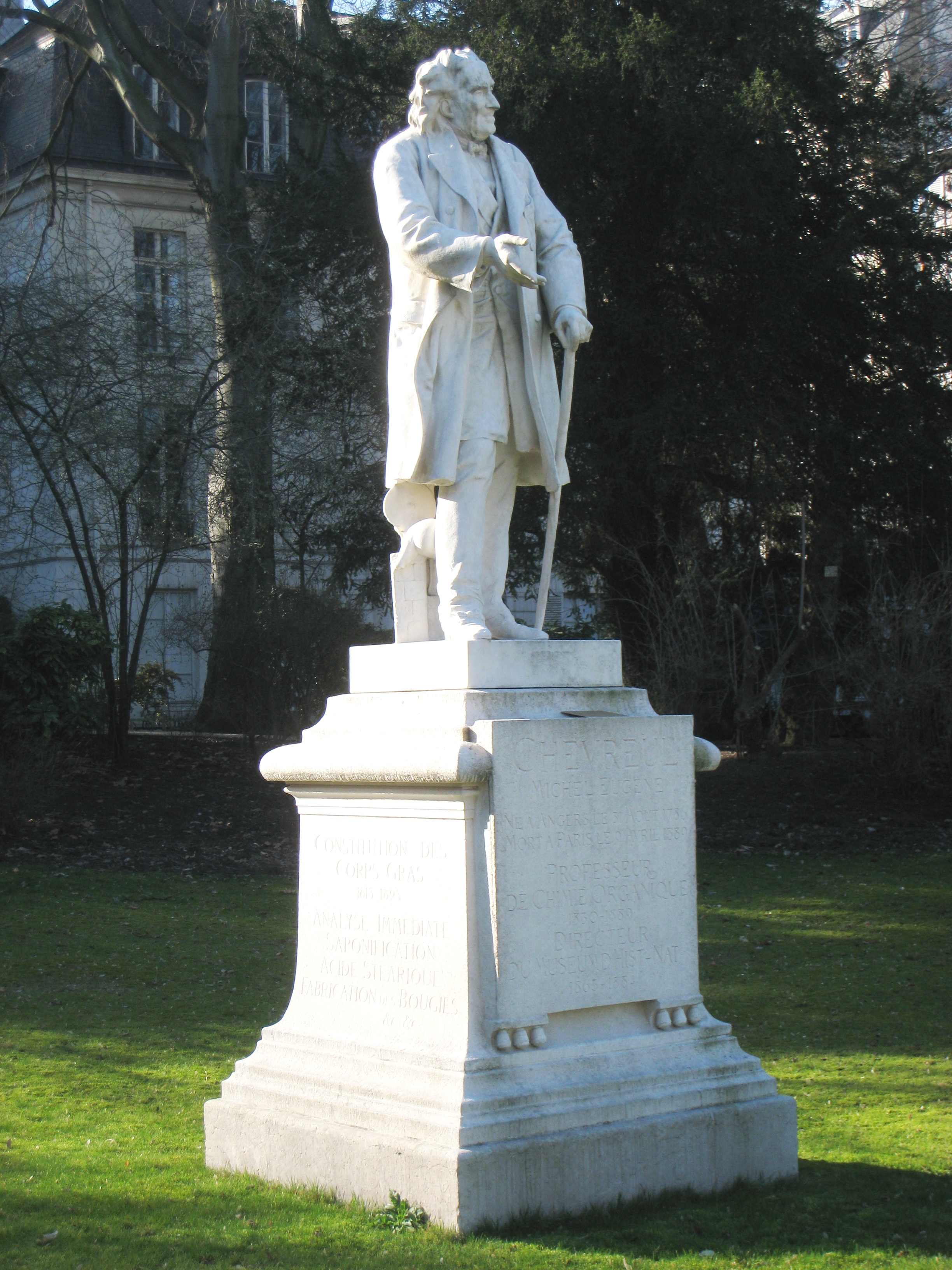 Statue of Michel Eugène Chevreul by Léon Fagel (1851-1913) in the Jardin des Plantes de Paris, Paris, France. Copyright (if any) has expired since the artist died more than 70 years ago.